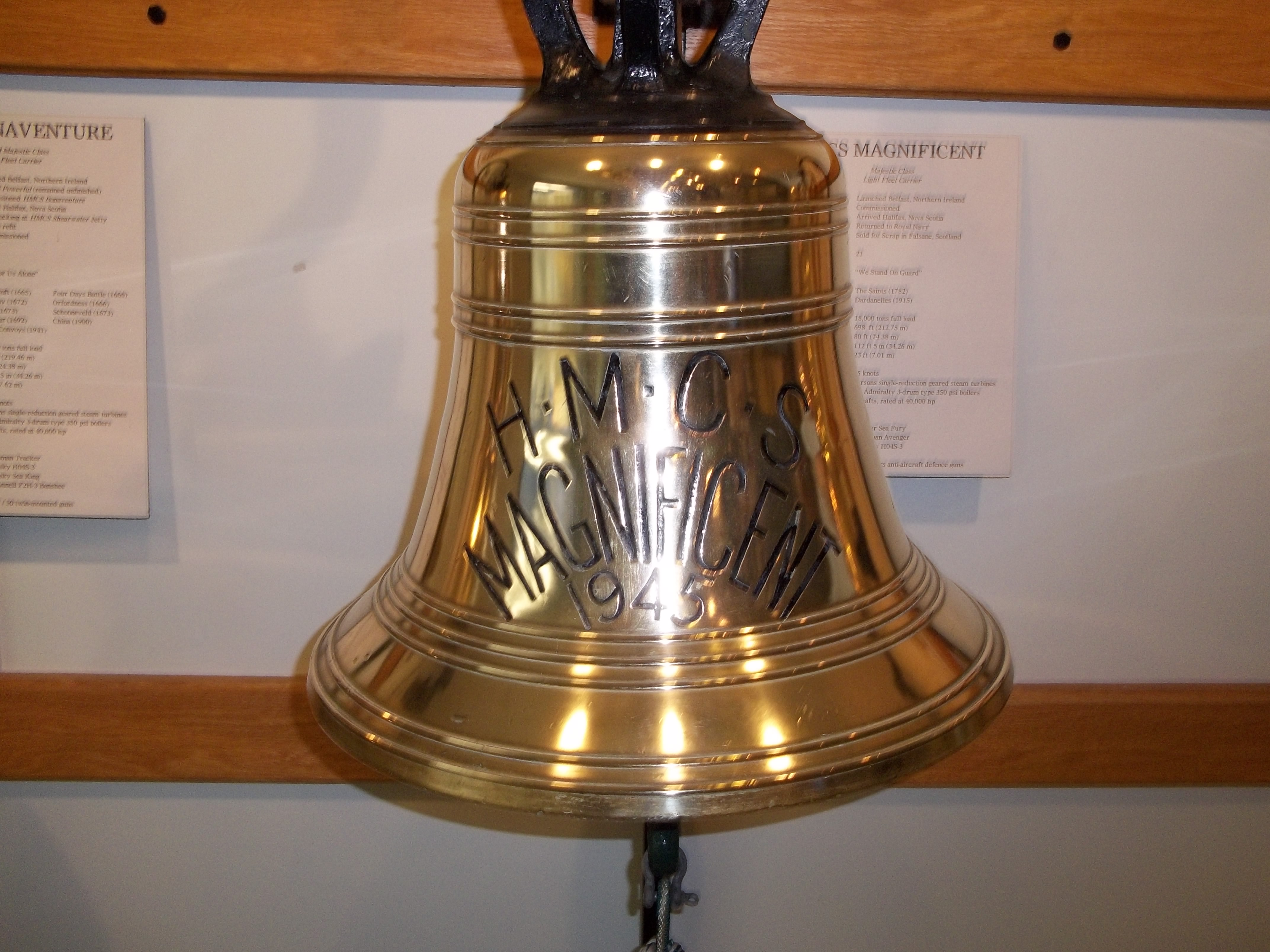 HMCS Magnificent's bell at Sherwater Aviation Museum.